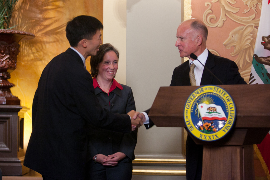 Justice Goodwin Liu shakes nominating Governor Brown's hand after the oath of office.